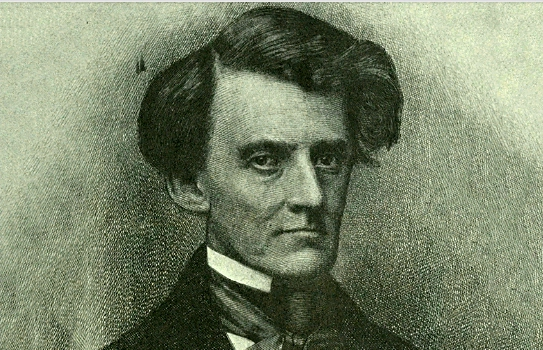 Reverend James Huckins founding member of Baylor University